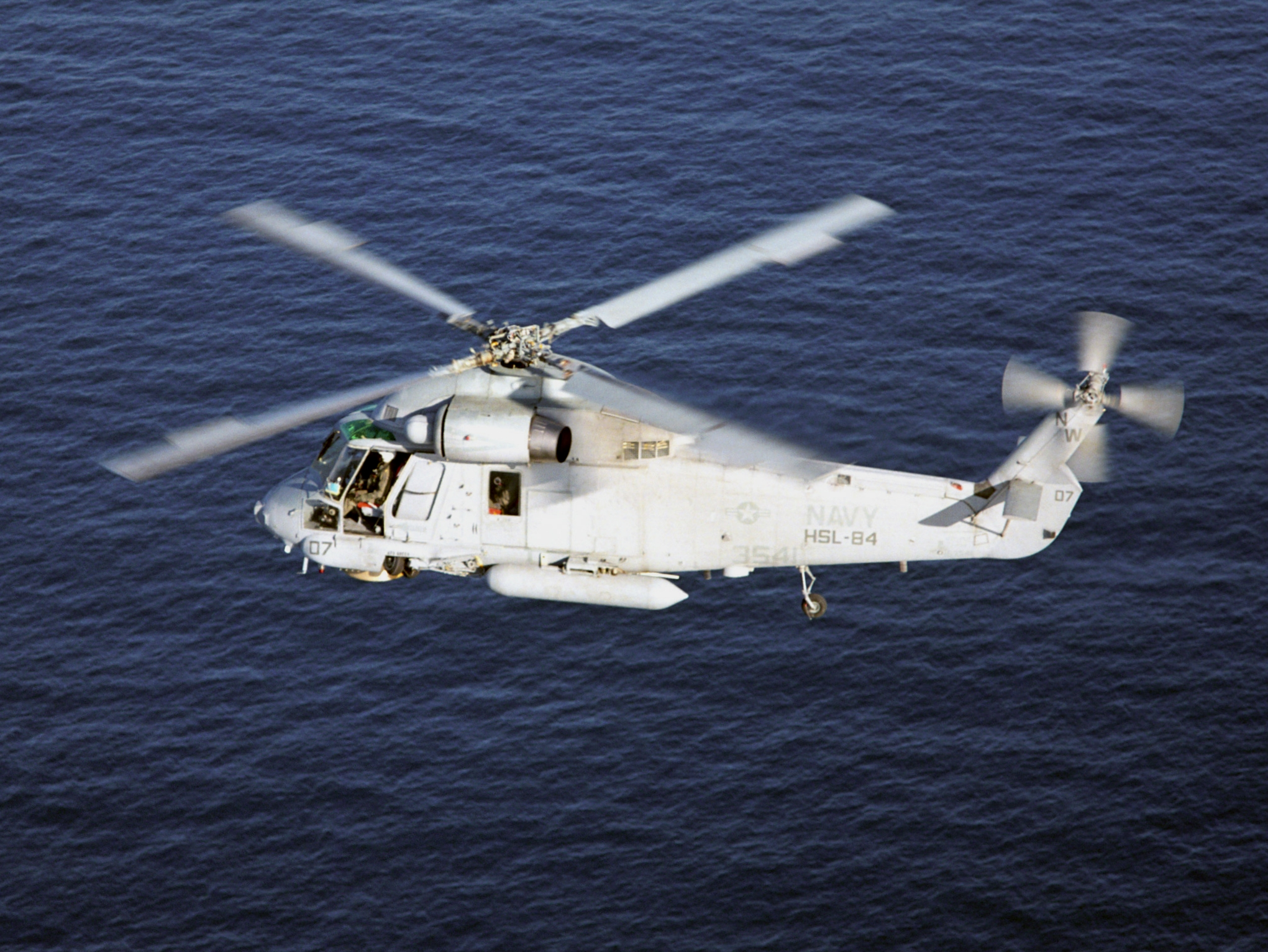 An SH-2G Seasprite, Light Airborne Multi-Purpose System (LAMPS), assigned to the US Navy Reserve Helicopter Antisubmarine Squadron (Light) 84 (HSL-84), Thunderbolts, Naval Air Station North Island (NASNI), California, in flight over the Pacific Ocean. Location: Unknown